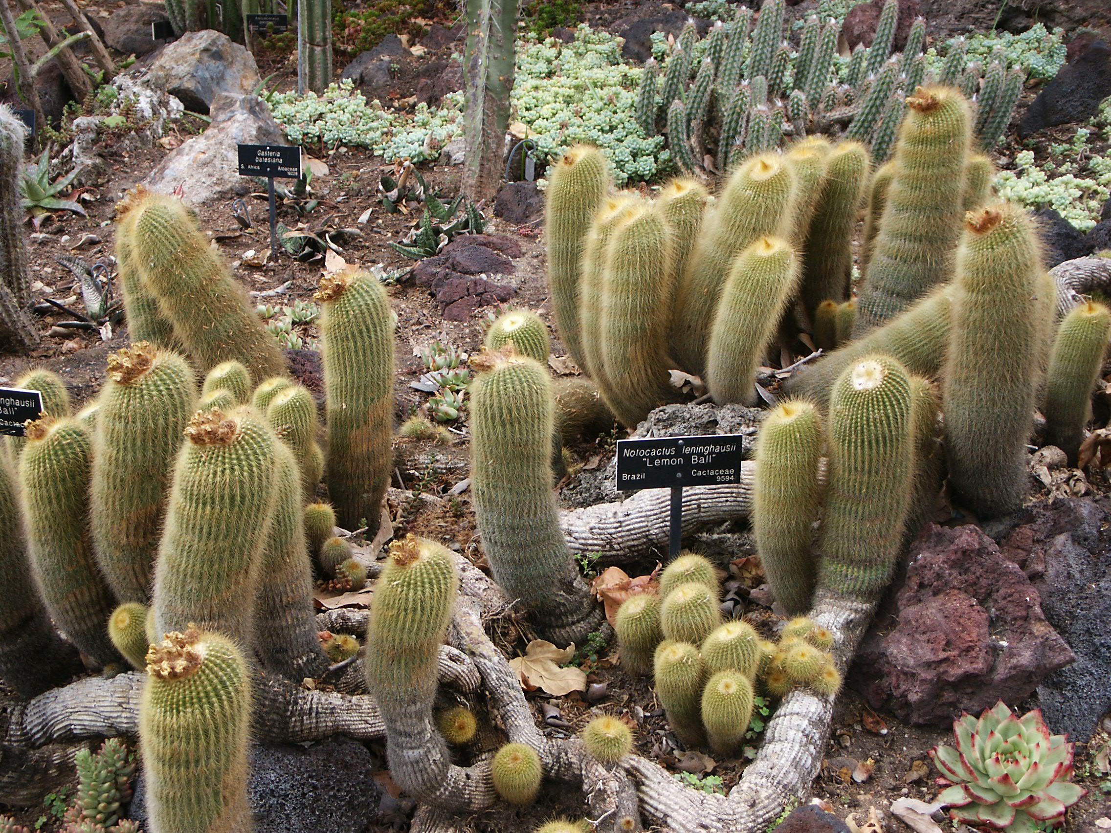 Parodia leninghausii (syn. Notocactus Leninghausii) "Lemon Ball"; & Gasteria batesiana, Huntington Library Desert Garden